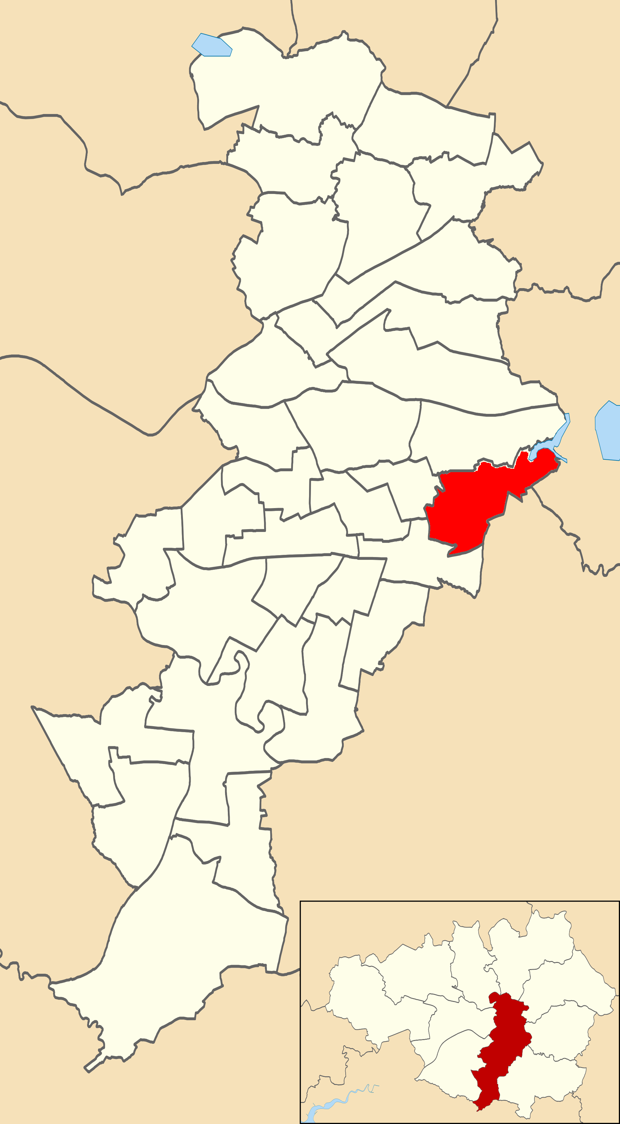 Map showing location of Gorton South ward within Manchester City Council.